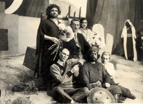 After Shah Ismail opera. 1929-30.